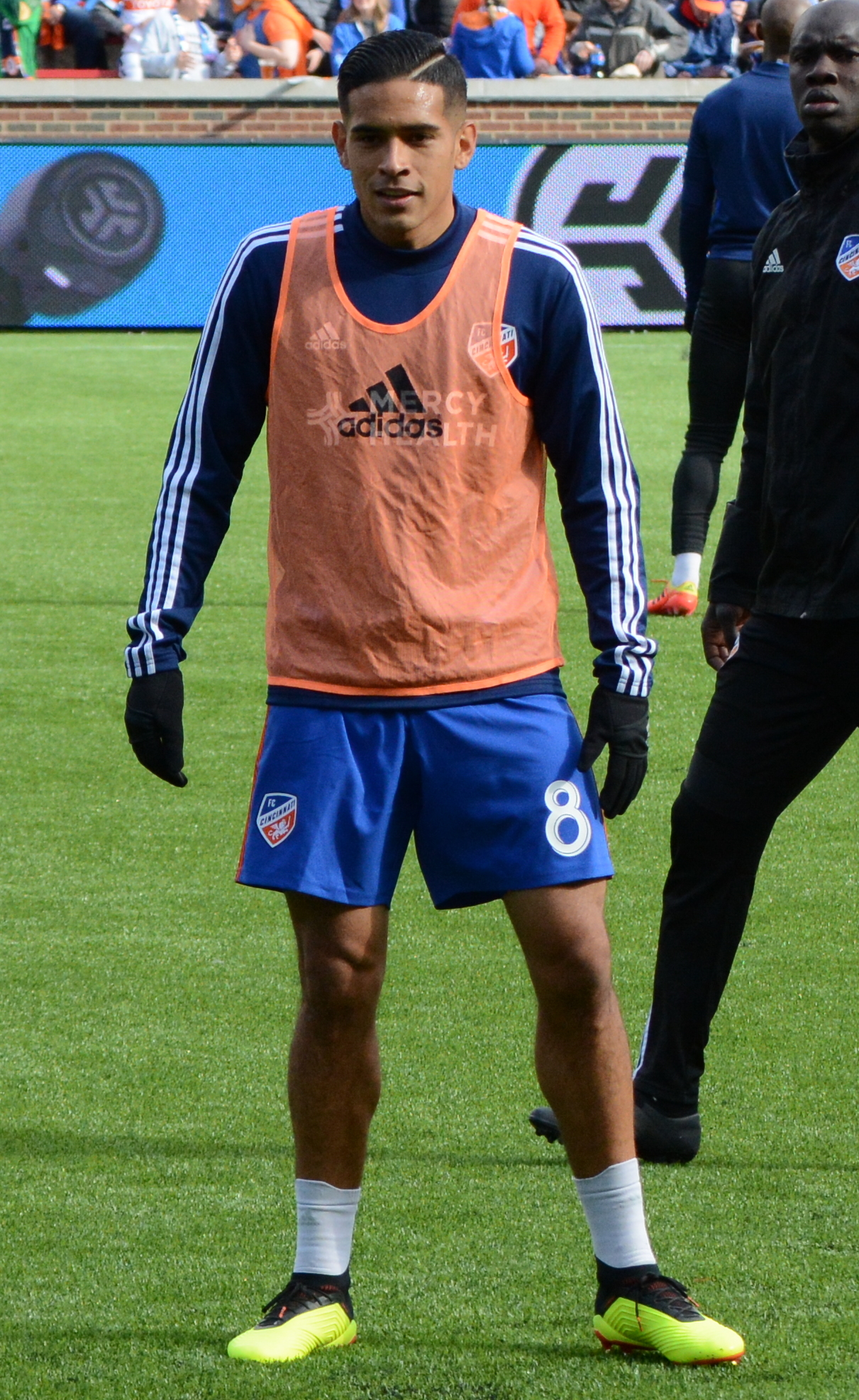 Taken during FC Cincinnati's Major League Soccer regular season home opener match against Portland Timbers at Nippert Stadium in Cincinnati, USA on March 17, 2019.